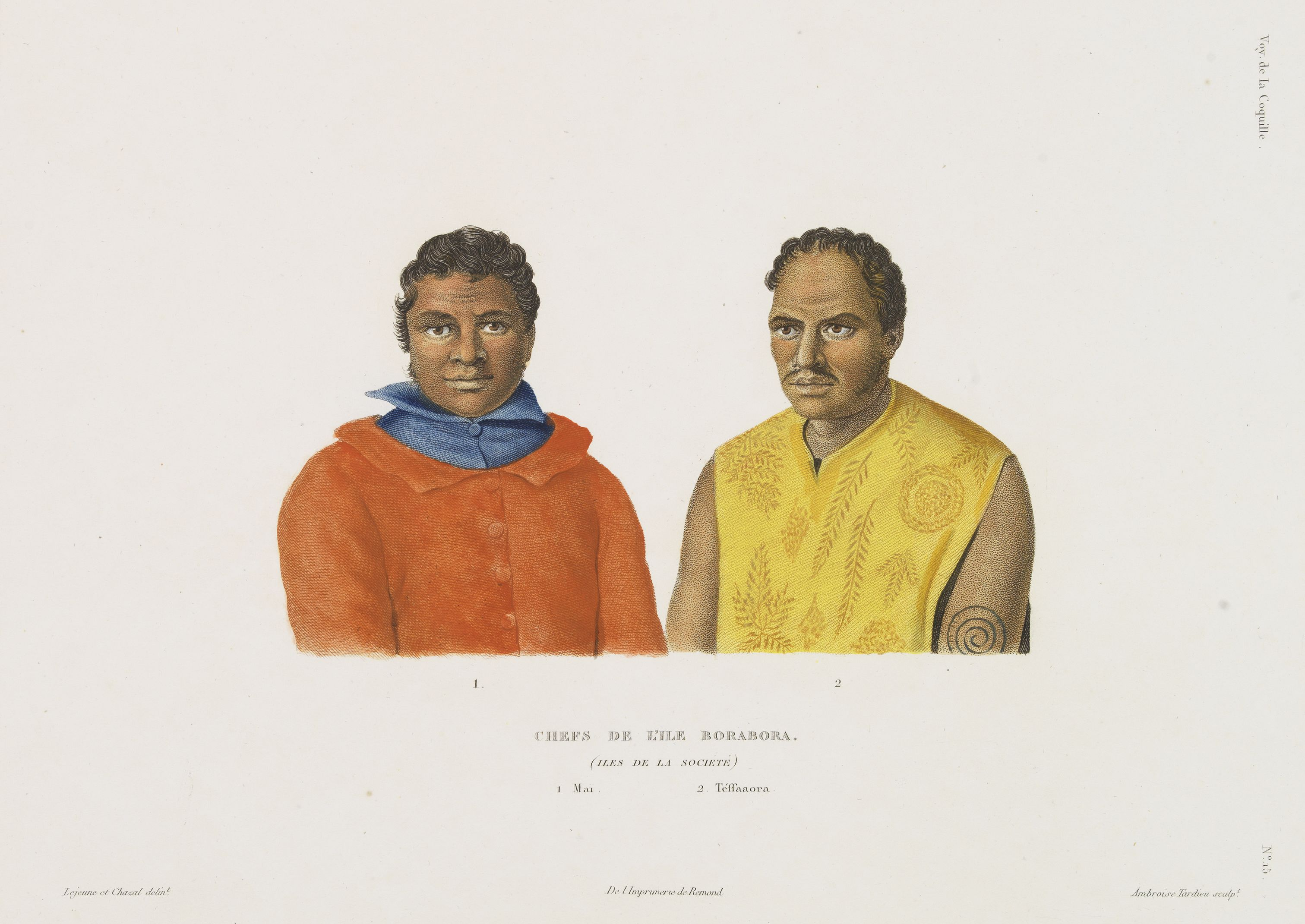 Chefs de l'Isle Borabora. (Isles de la Société) 1. Maï 2. Téffaaora. Depiction from "Voyage autour du Monde, exécuté par ordre du Roi, sur la corvette de sa Majesté, La Coquille pendant les années 1822, 1823, 1824 et 1825. Hydrographie, Atlas." by Louis Isidore Duperrey (1786-1865).